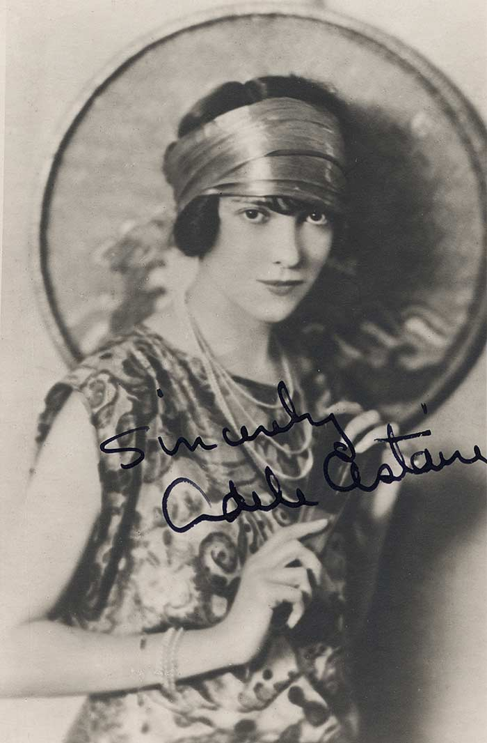 Portrait of Adele Astaire; later Adele Cavendish, Marquise of Hartington